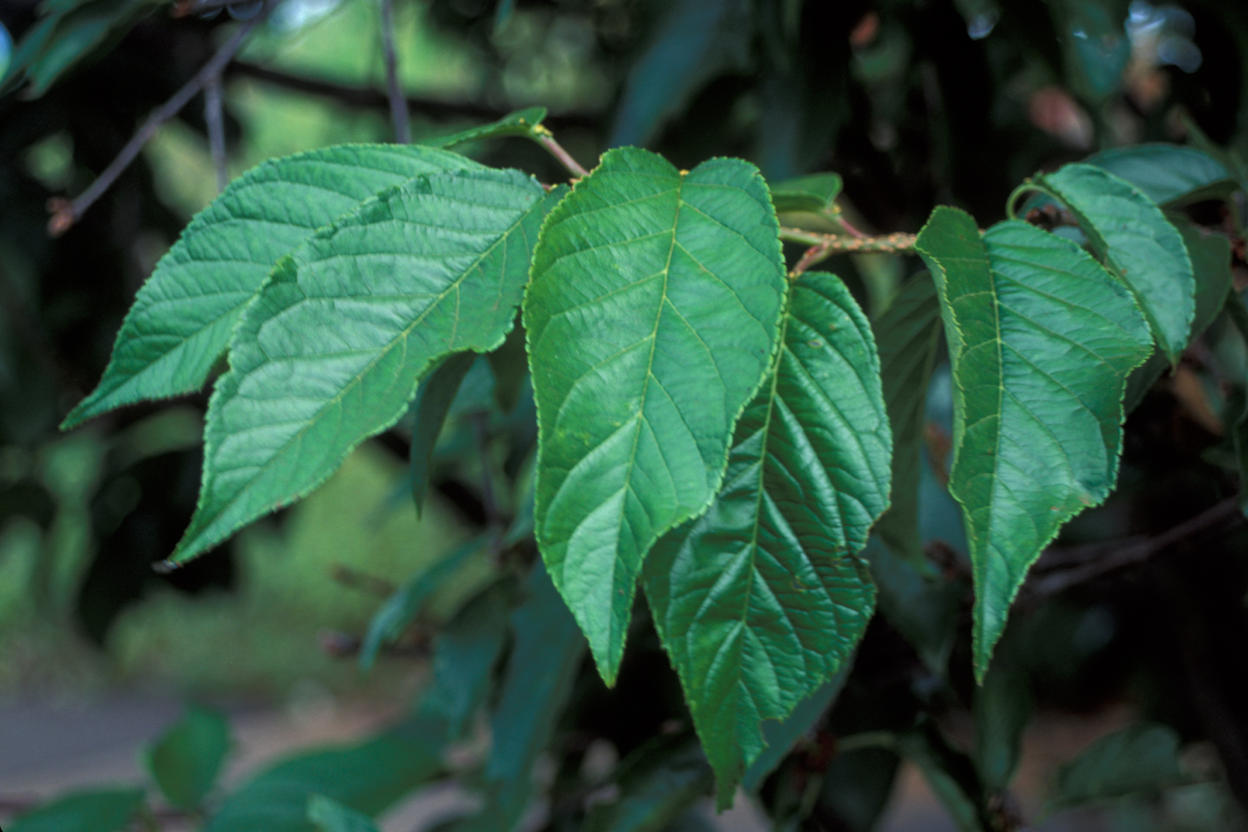 Prunus campanulata (ranch). Location: Maui, Enchanting Floral Gardens of Kula